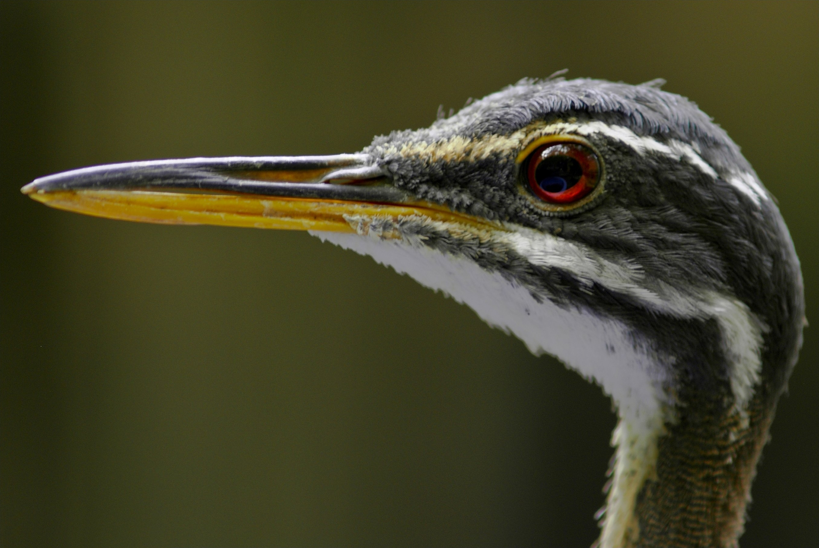 A Sunbittern at the Tulsa Zoo Rainforest Exhibit, USA.